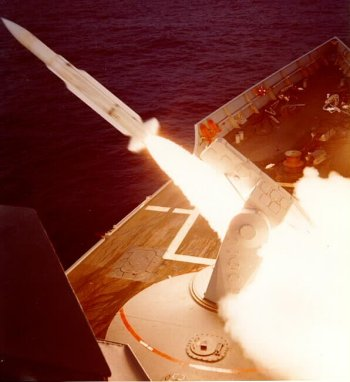 The US-built RIM-66 Standard Missile SM-1MR missile is an important element of zone defense (here, launched from a US Guided Missile Frigate of the Perry class). Standard resembles its predecessor Tartar, but replaced Tartar before Oliver Hazard Perry frigates were commissioned.